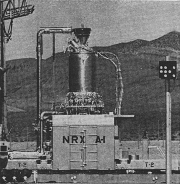 The NRX A-1 nuclear thermal engine at Area 25 in the Nevada Test Site. This was the first engine developed and tested during the NERVA-Program (Nuclear Engine for Rocket Vehicle Applications) of the NASA